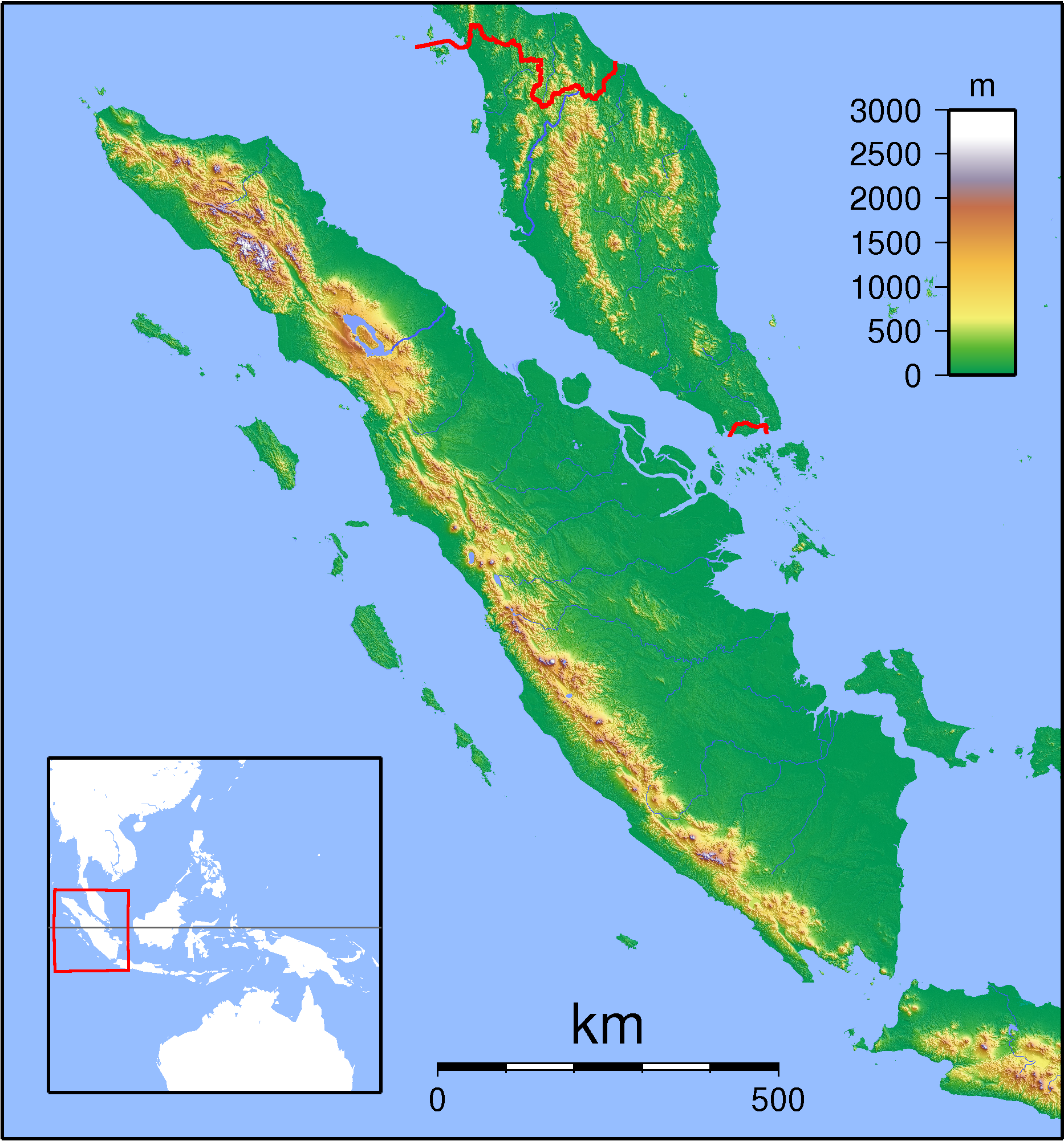 Topographic locator map of Sumatra. Created with GMT from SRTM data. For non-locator version, see Image:Sumatra Topography.png. Left:94 Bottom:-8 Rght:108 Top:7